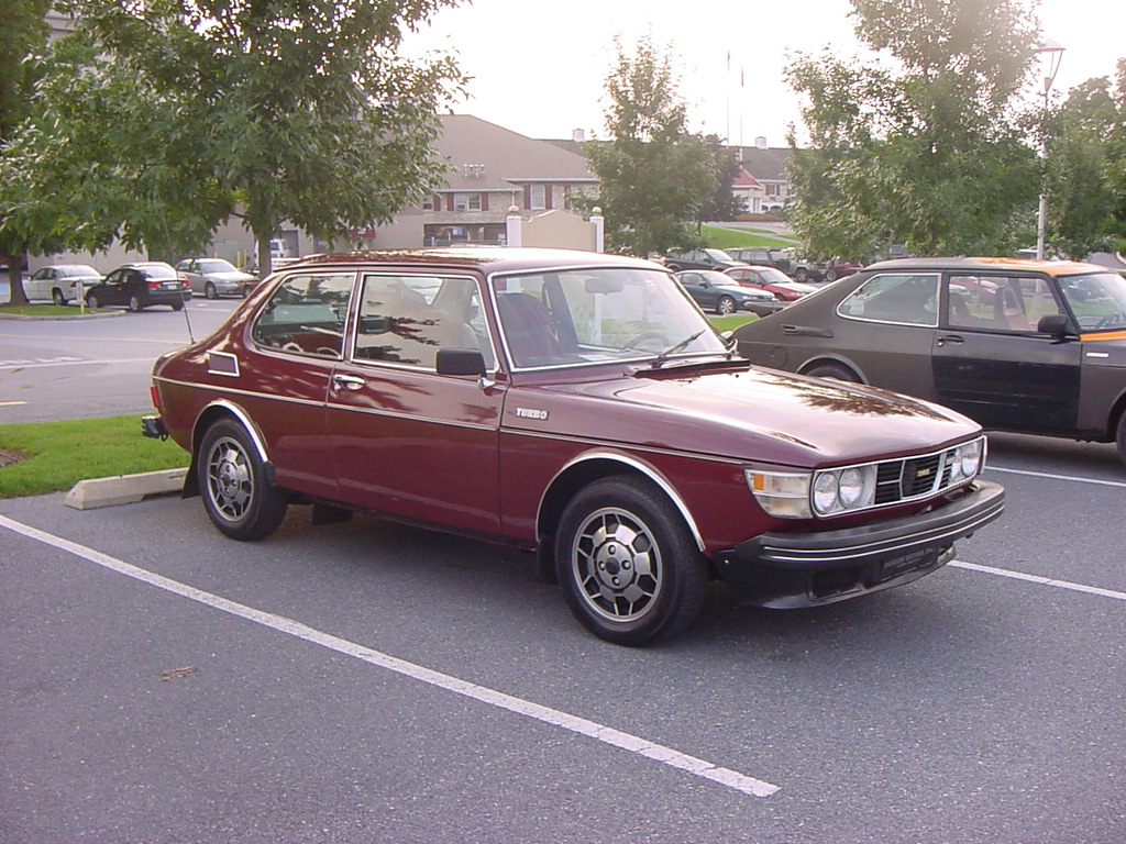 Thirty seven pre-production "test cars" were sent to the US in 1977 and early 1978. Fourteen were 2-dr models. This is one of only a handful that exist to this day, this being the finest example.